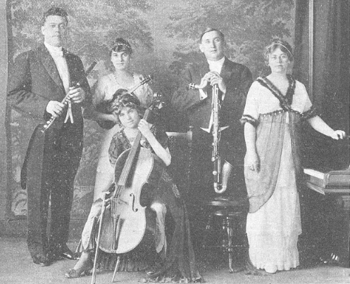 The Smith-Spring-Holmes Orchestral Quintet, from a 1915 publication. Five white people, two men and three women, in formal attire; the men are holding a clarinet and saxophone; the women are shown with a violin, cello, and piano.